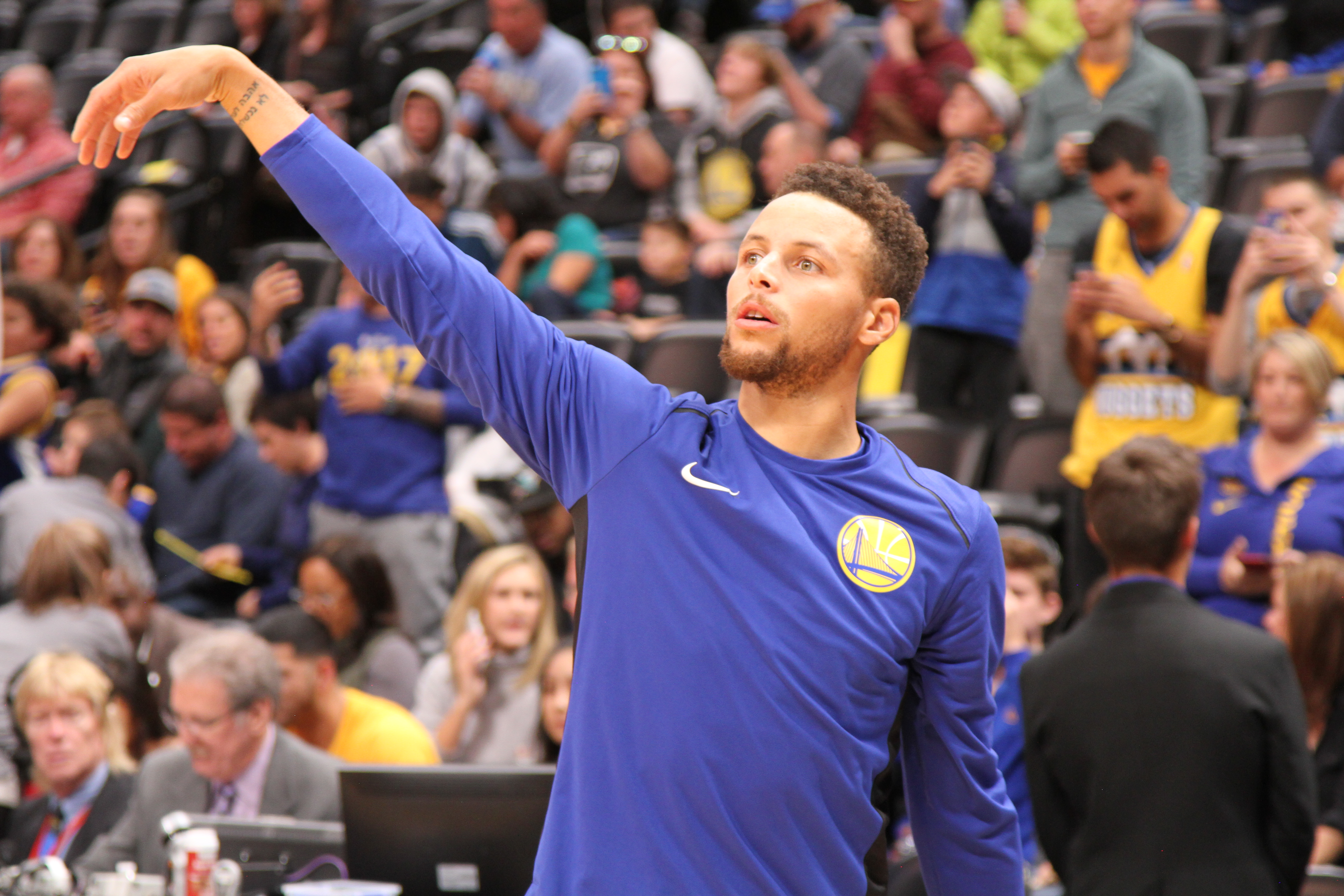 Stephen Curry practices prior to the start of a game in Denver, Colorado.